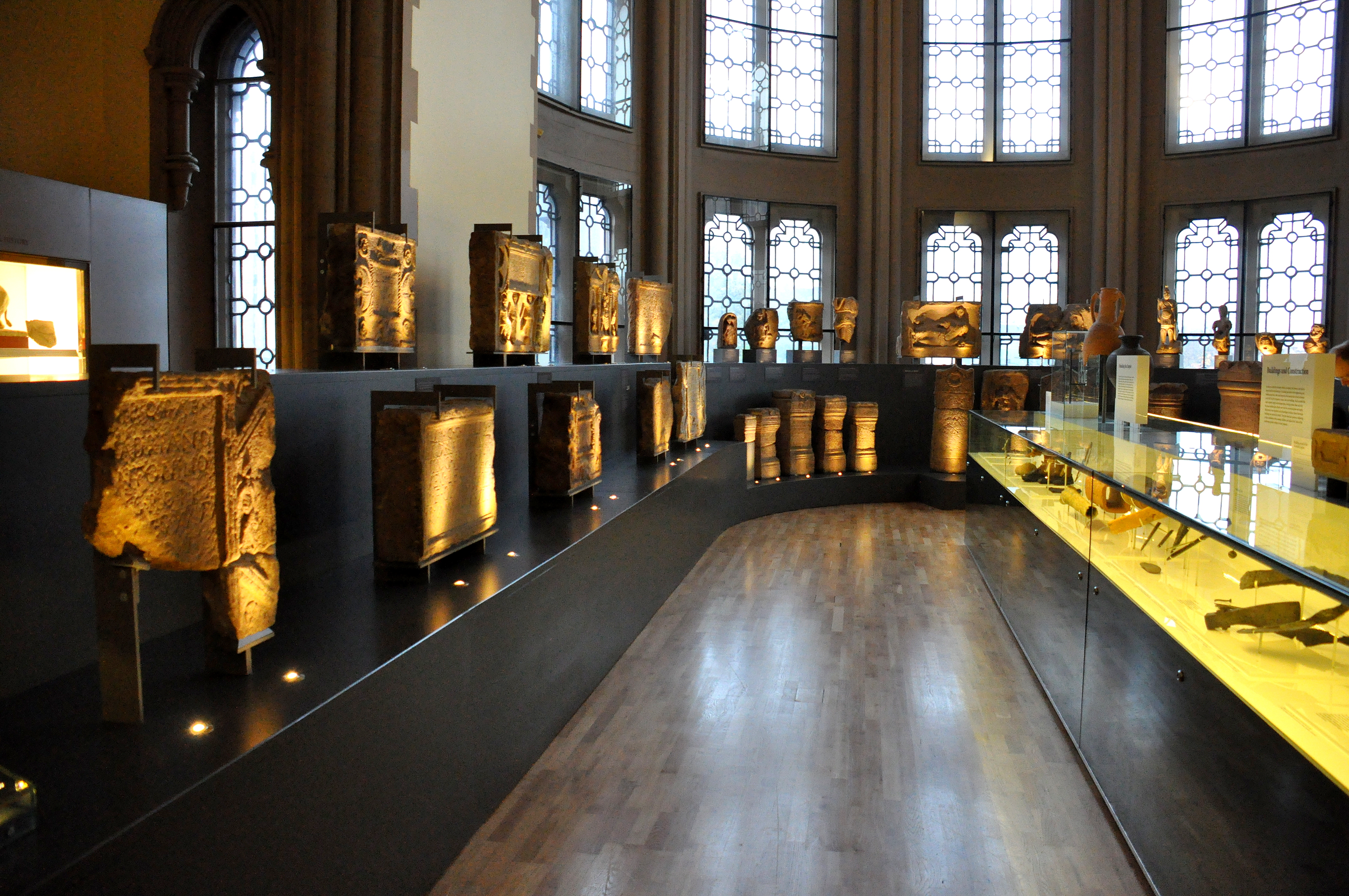 The hall of the the Antonine Wall; Rome's final frontier. The wall was built around 142 CE in the reign of the Roman emperor Antoninus Pius. The Antonine Wall ran coast-to-coast across Scotland from the Clyde to the Firth of Forth. The Hunterian Museum at the University of Glasgow, Scotland, UK.